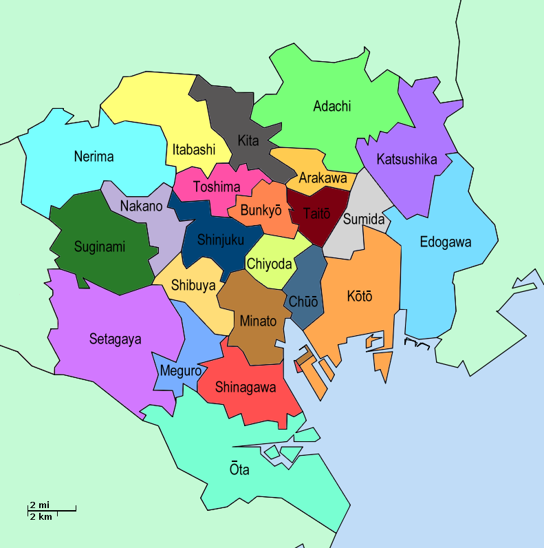 The map of Tokyo_Special_Wards